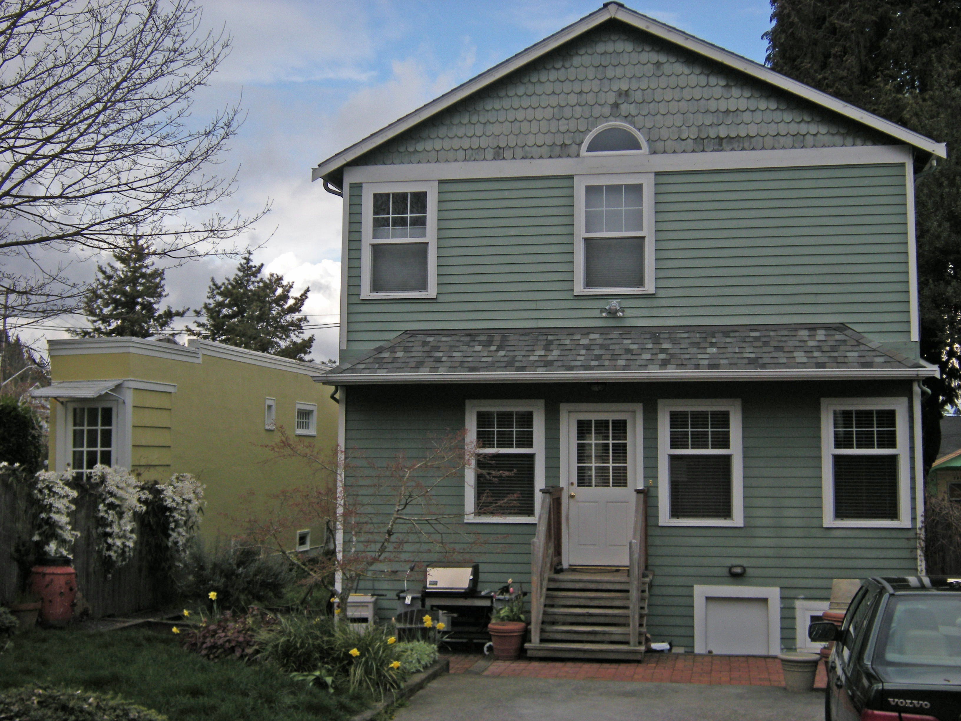 Alley view: thin end of the Montlake Spite House, 2022 24th Ave E (corner E Boston St), Montlake, Seattle, Washington, and the house it blocks from 24th.